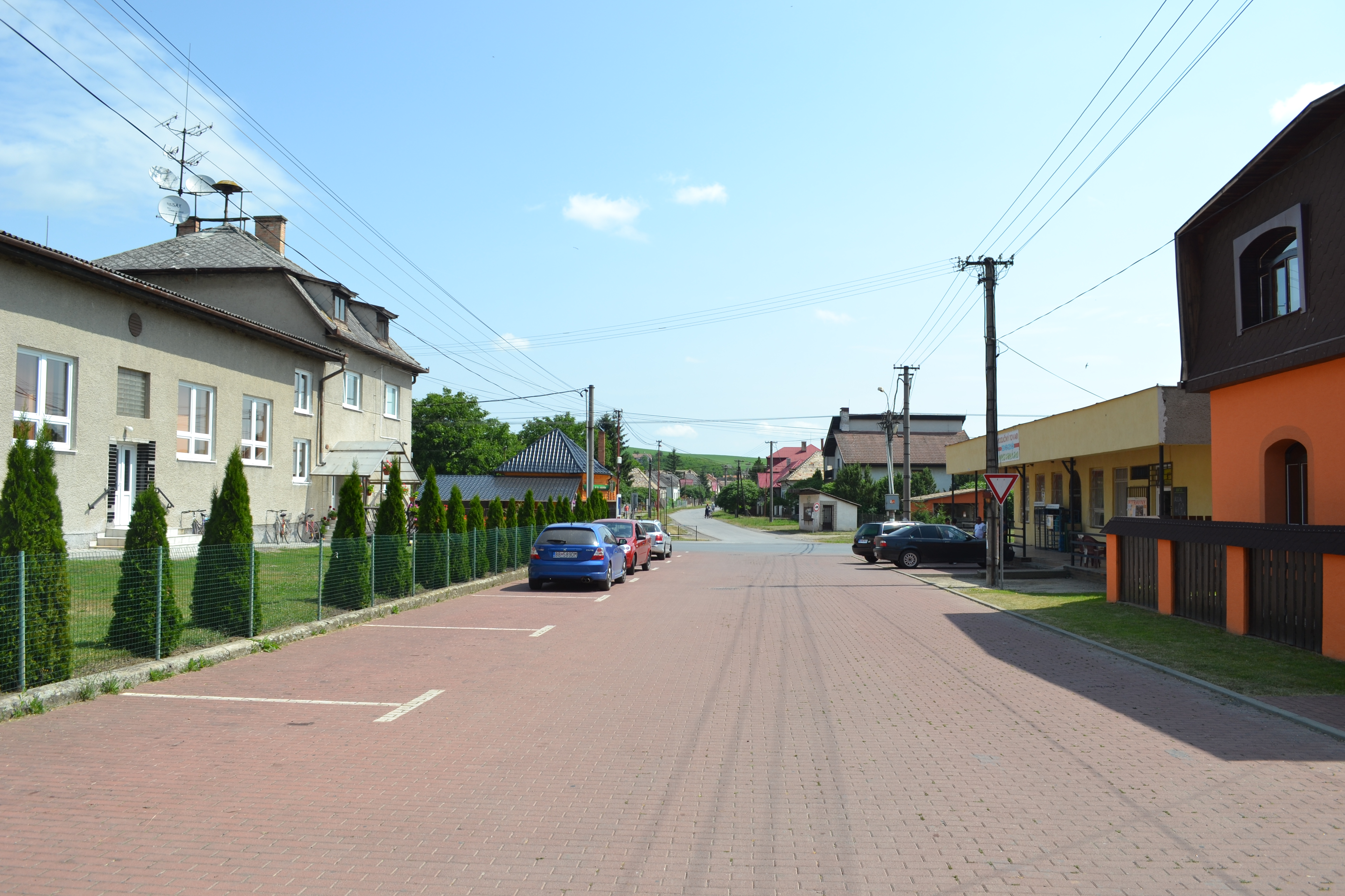 Street of the village Rimavské Janovce